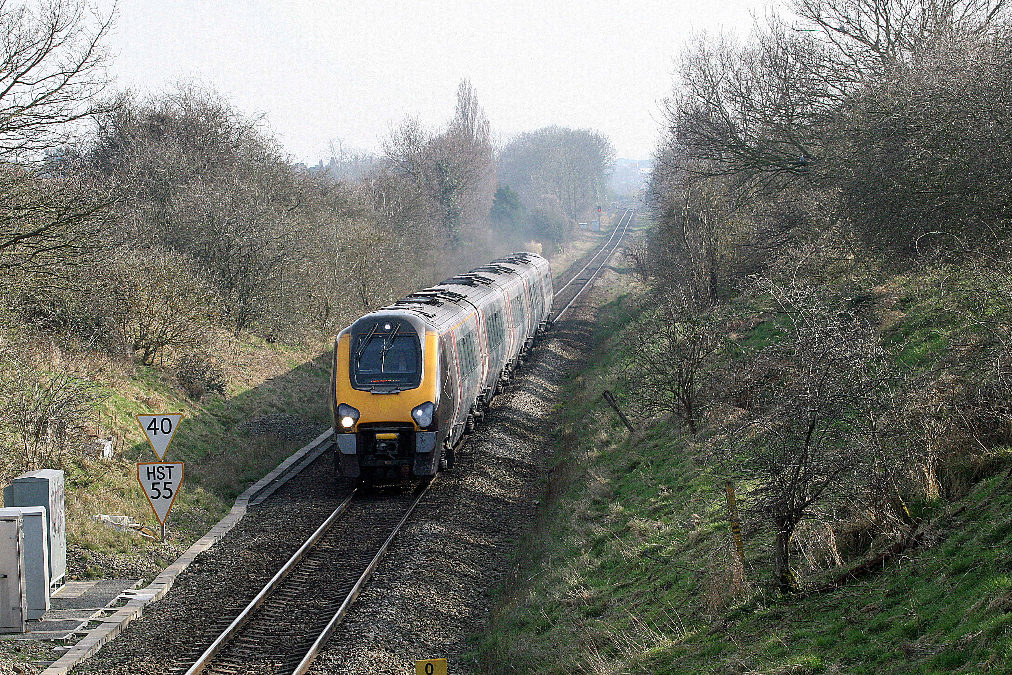 Cross Country Voyager Old Milverton 20-03-2009